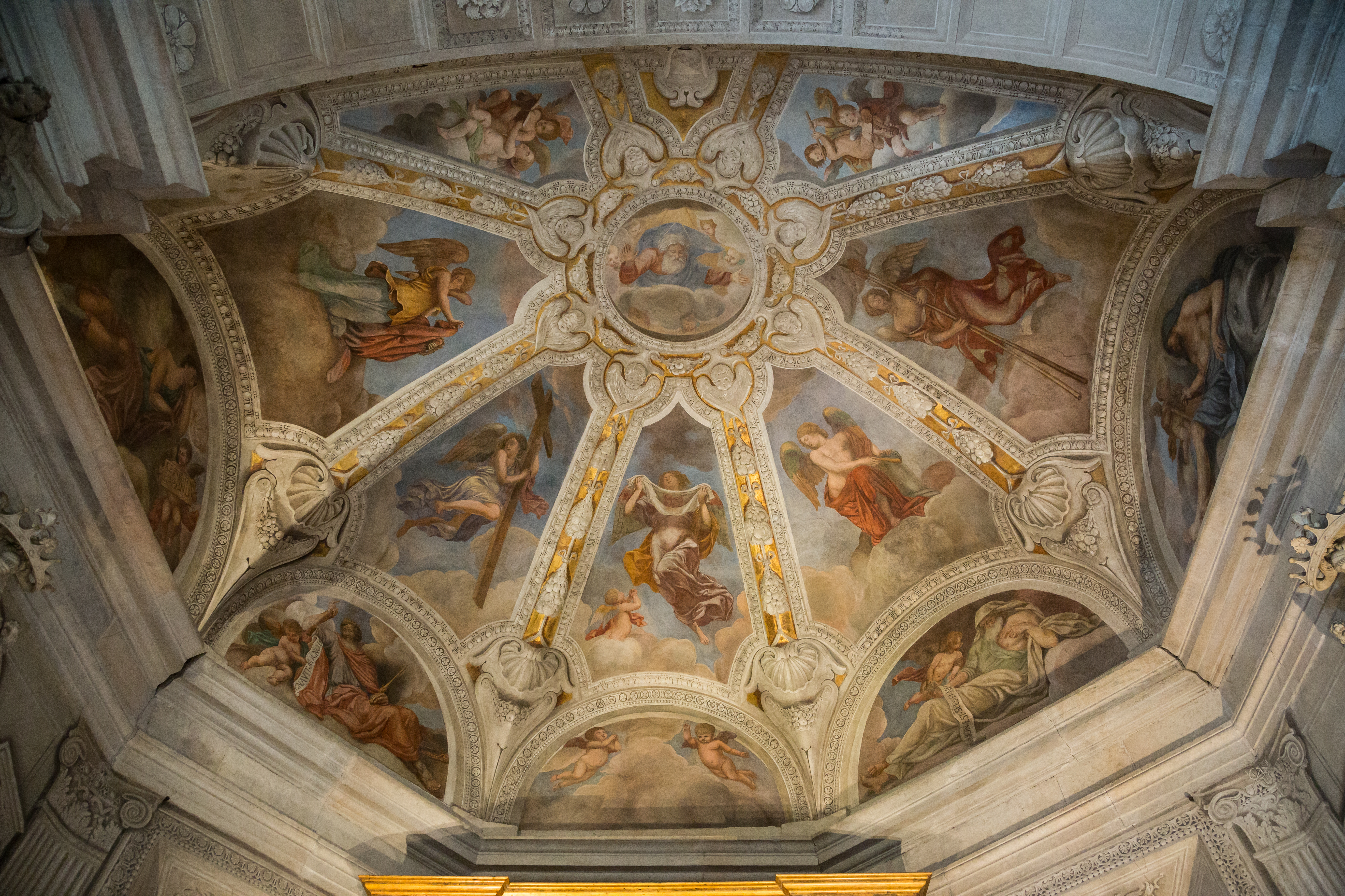 Santa Maria del Popolo, Cybo-Soderini chapel